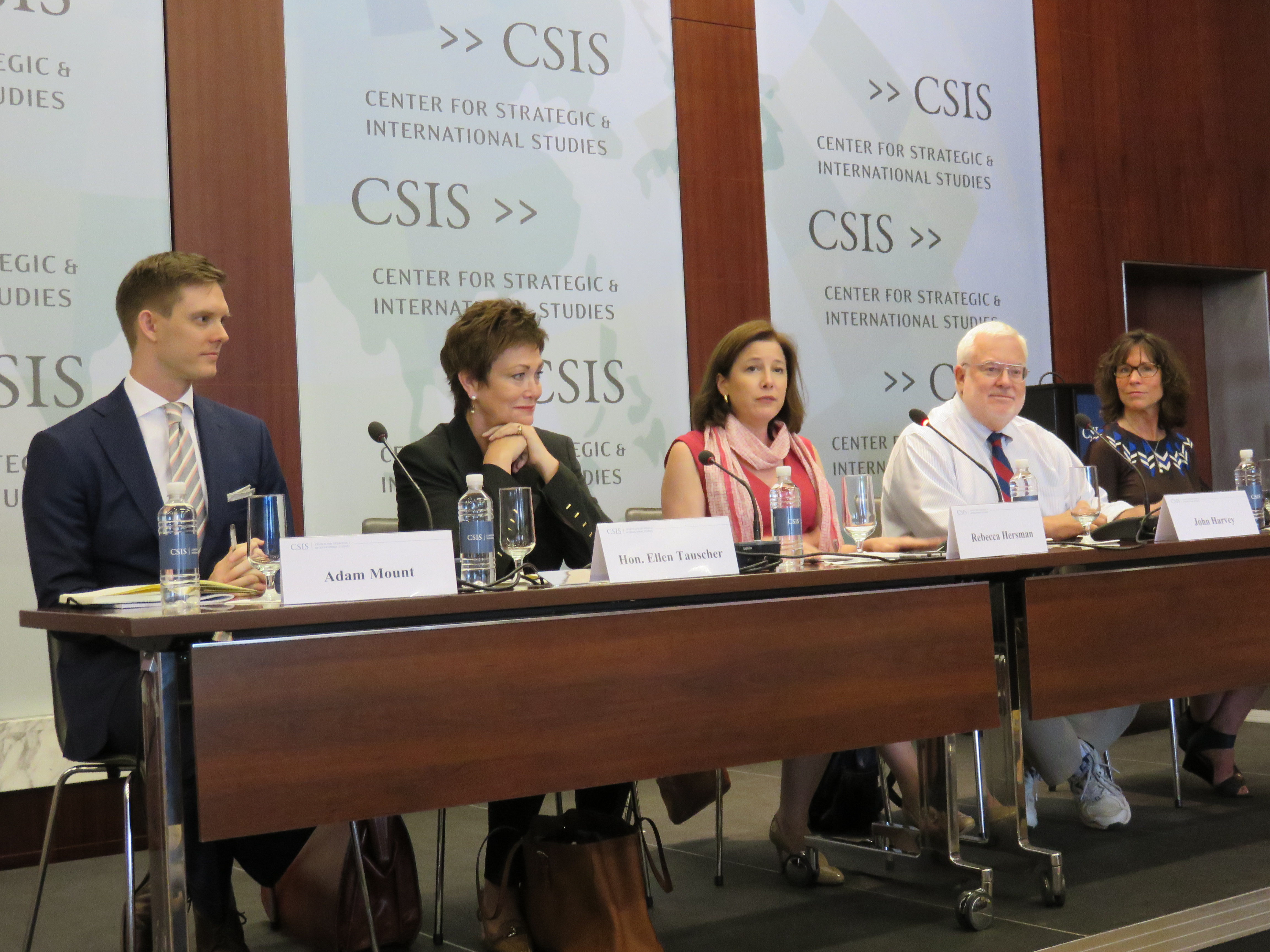 Adam Mount, Ellen O. Tauscher, Rebecca Hersman, John R. Harvey and Kori Schake at the Center for Strategic and International Studies, Project on Nuclear Issues and Ploughshares Fund panel discussion, "Debate: U.S. Nuclear Weapon Modernization", Washington, D.C., 29 June 2017